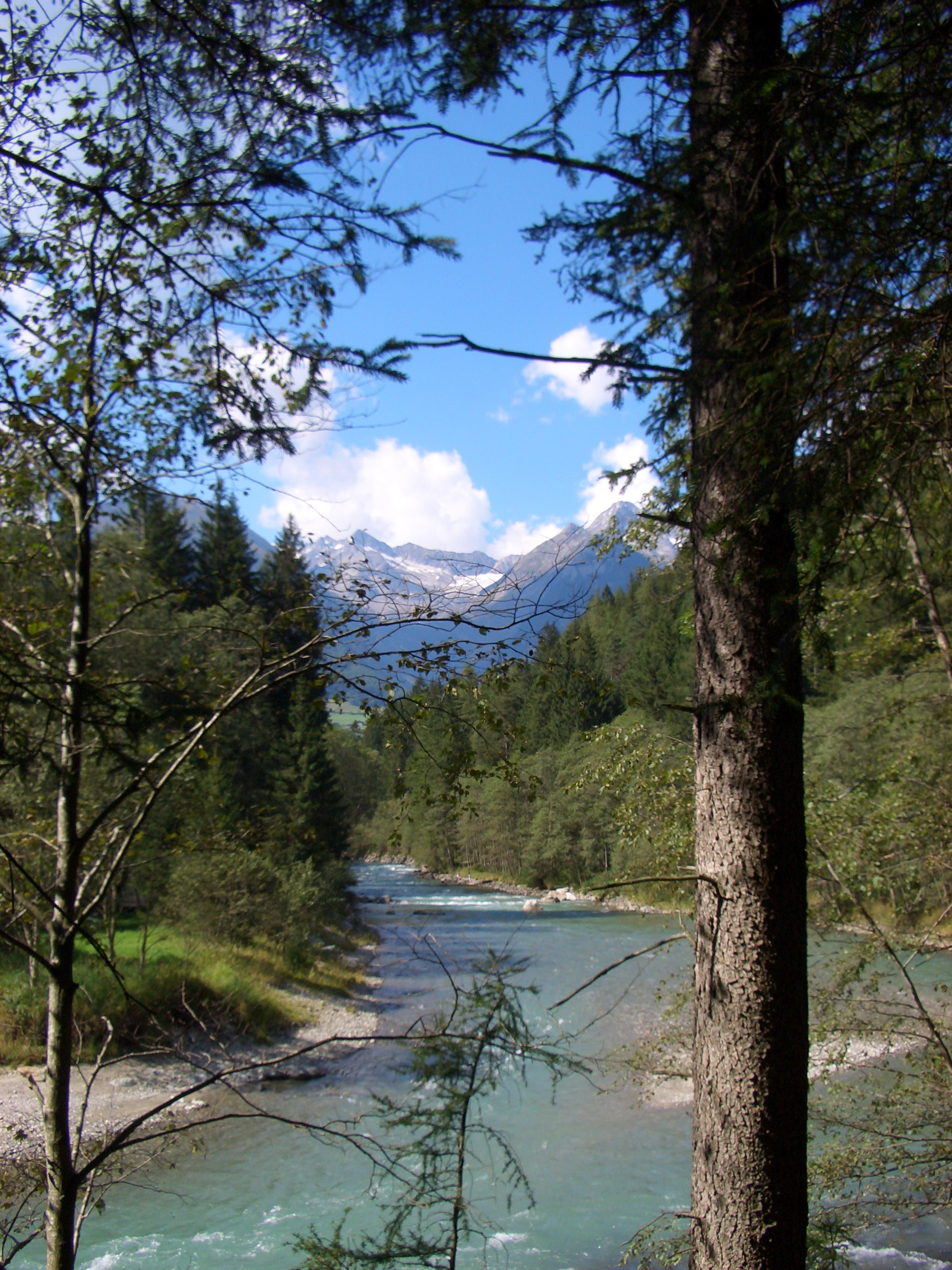 Ahr between Luttach and Sand in Taufers, South Tyrol, Italy Aug 31 2005